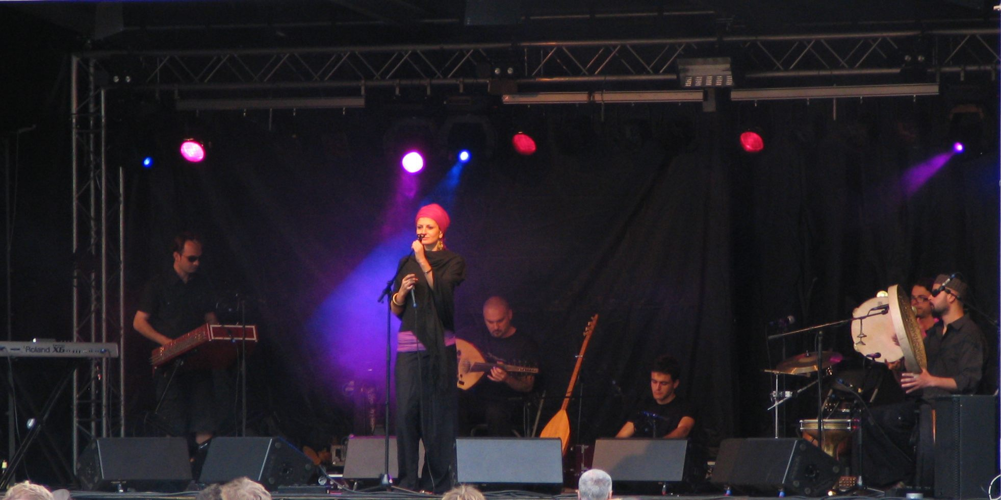 Bulgarian band Irfan performing live at Castlefest, Lisse, Netherlands, August 2, 2008. Image has been cropped to get rid of the audience in front.